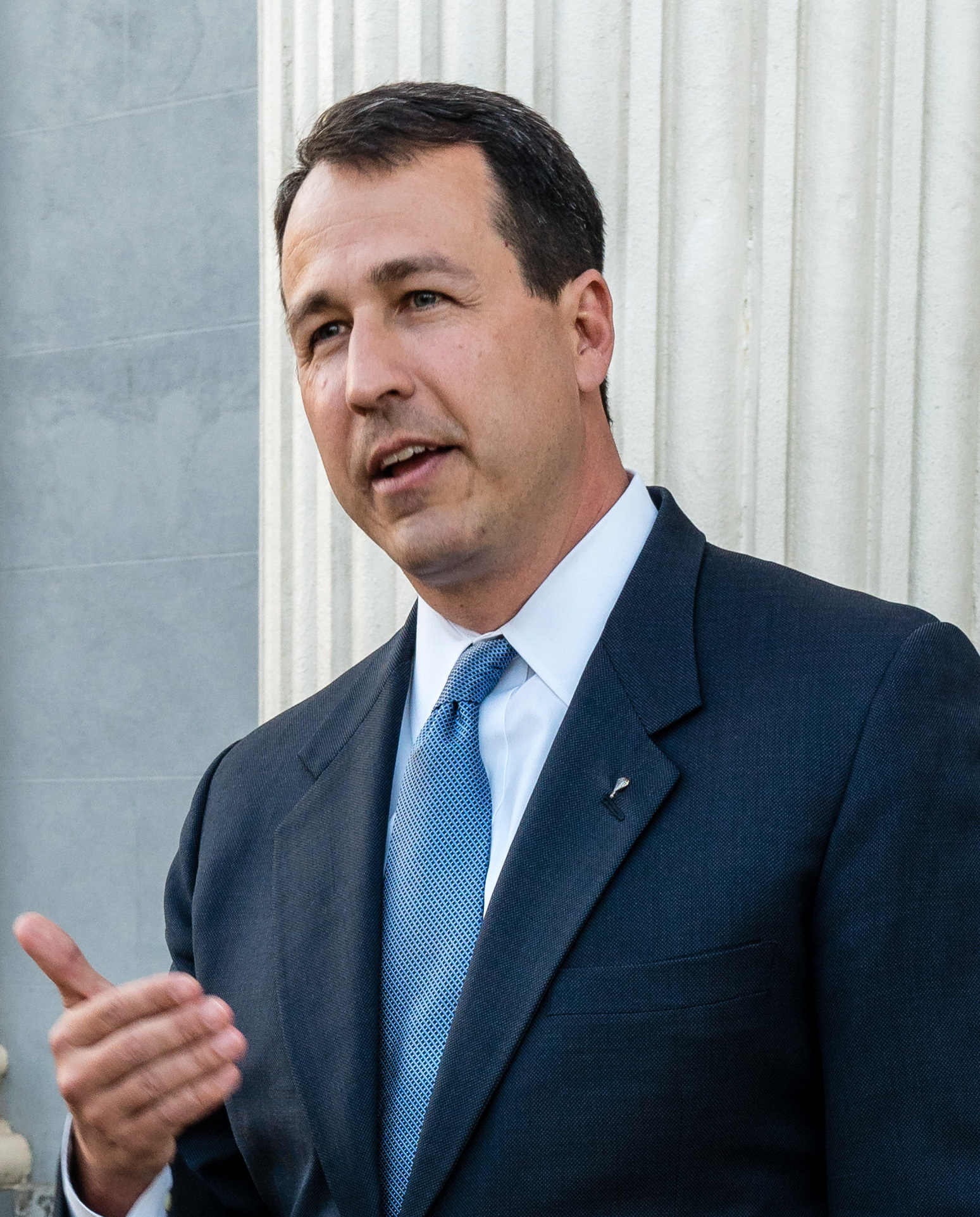 Cal Cunningham gives a speech at the Davidson County Historical Museum